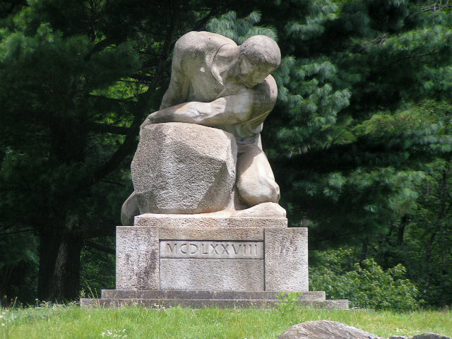 Battle of Giornico. Sculpter by Appollonio Paolo Pessina (28th December 1478) Memorial